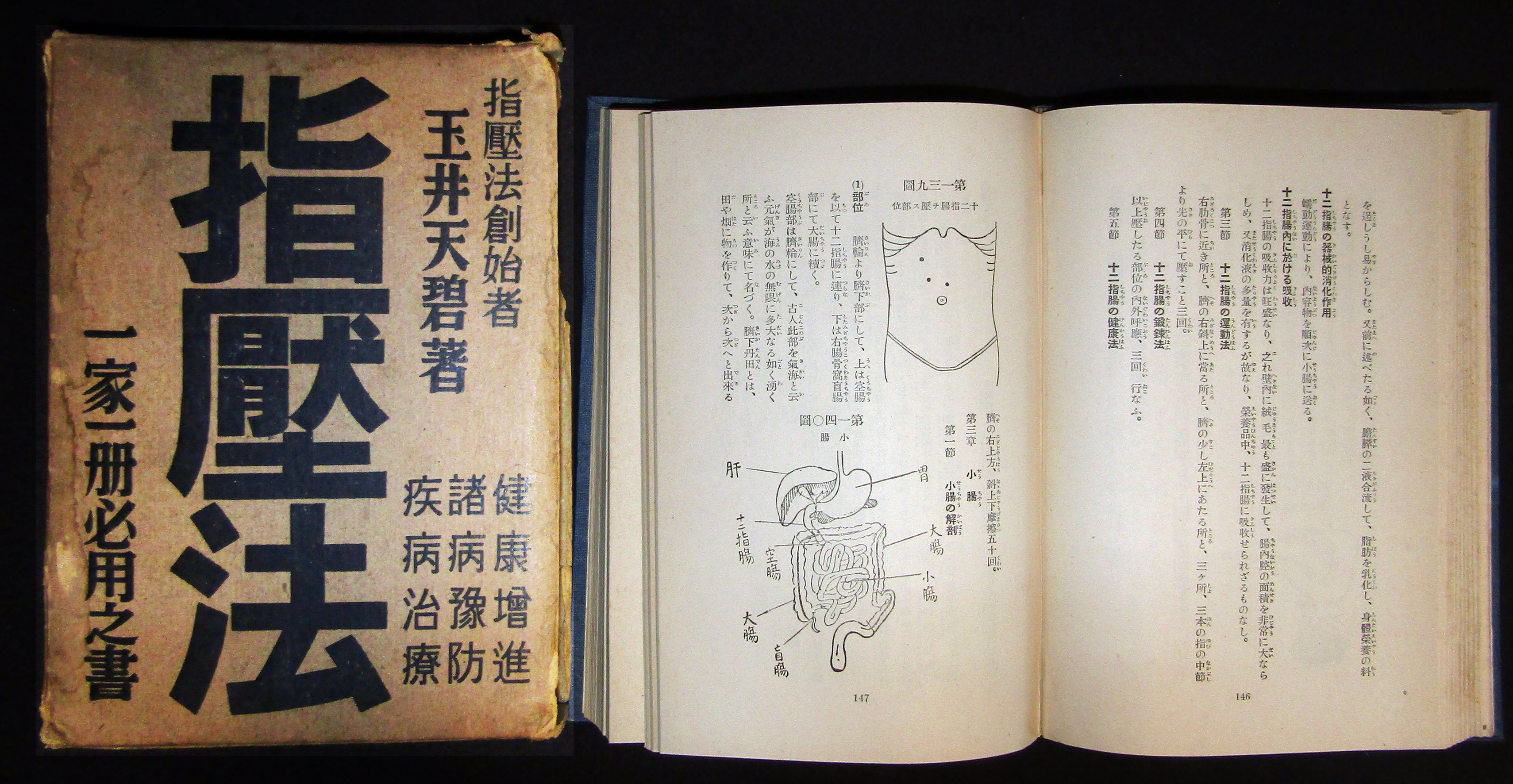 Tamai Tenpeki's book on Japanese Shiatsu (first edition, 1939). On the bookcover Tamai poses as the inventor of Shiatsu. The book is written for the general public (self treatment) and should "promote health, prevent deseases, and cure deseases". "In every home should be one copy".